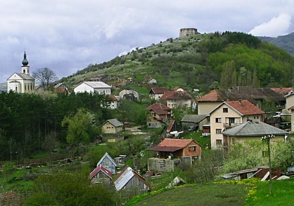 The town of Kalinovnik, Republika srpska, BiH